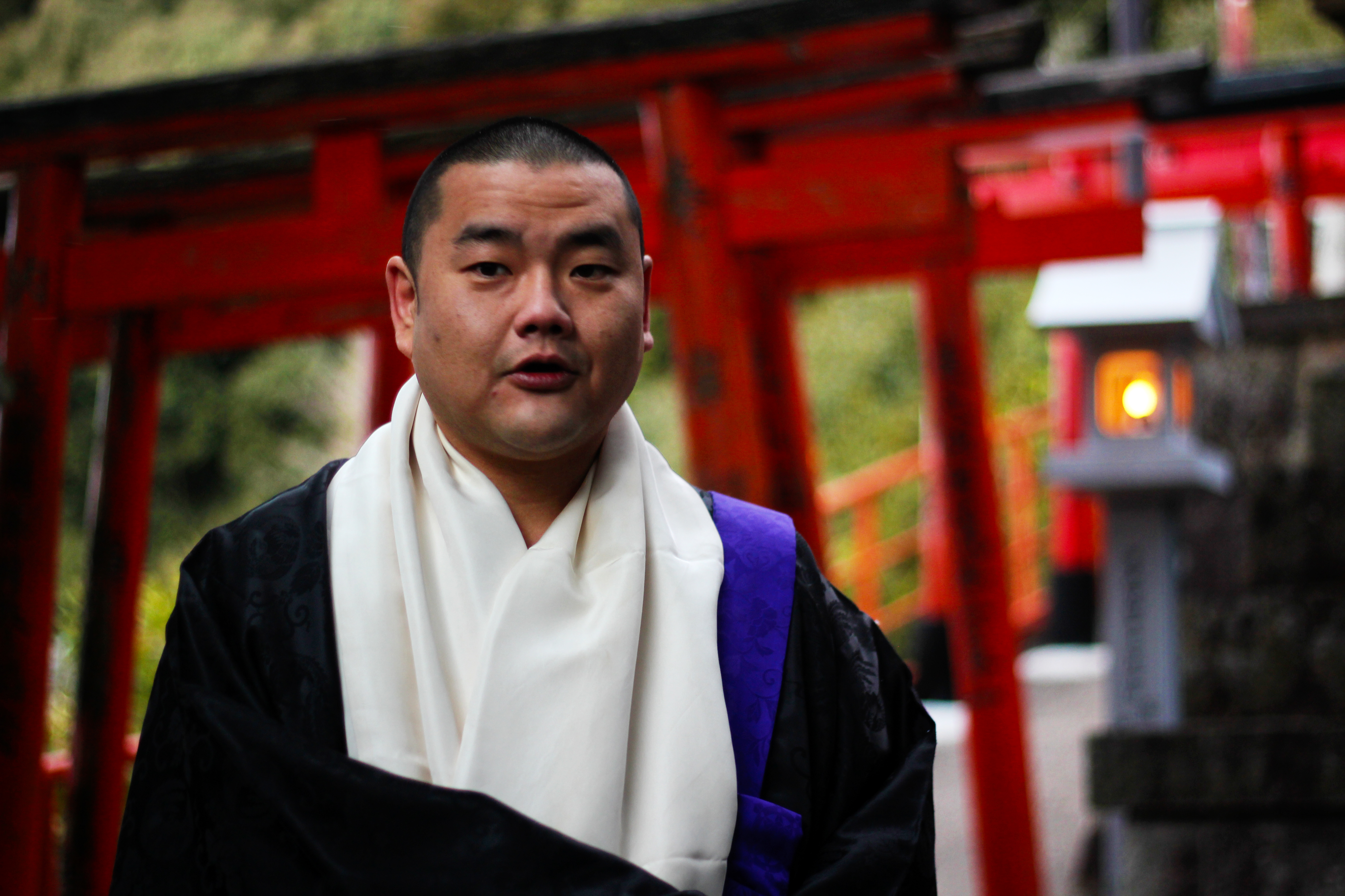 Shingon monk at the Shigisan Chosonshiji temple (信貴山朝護孫子寺).